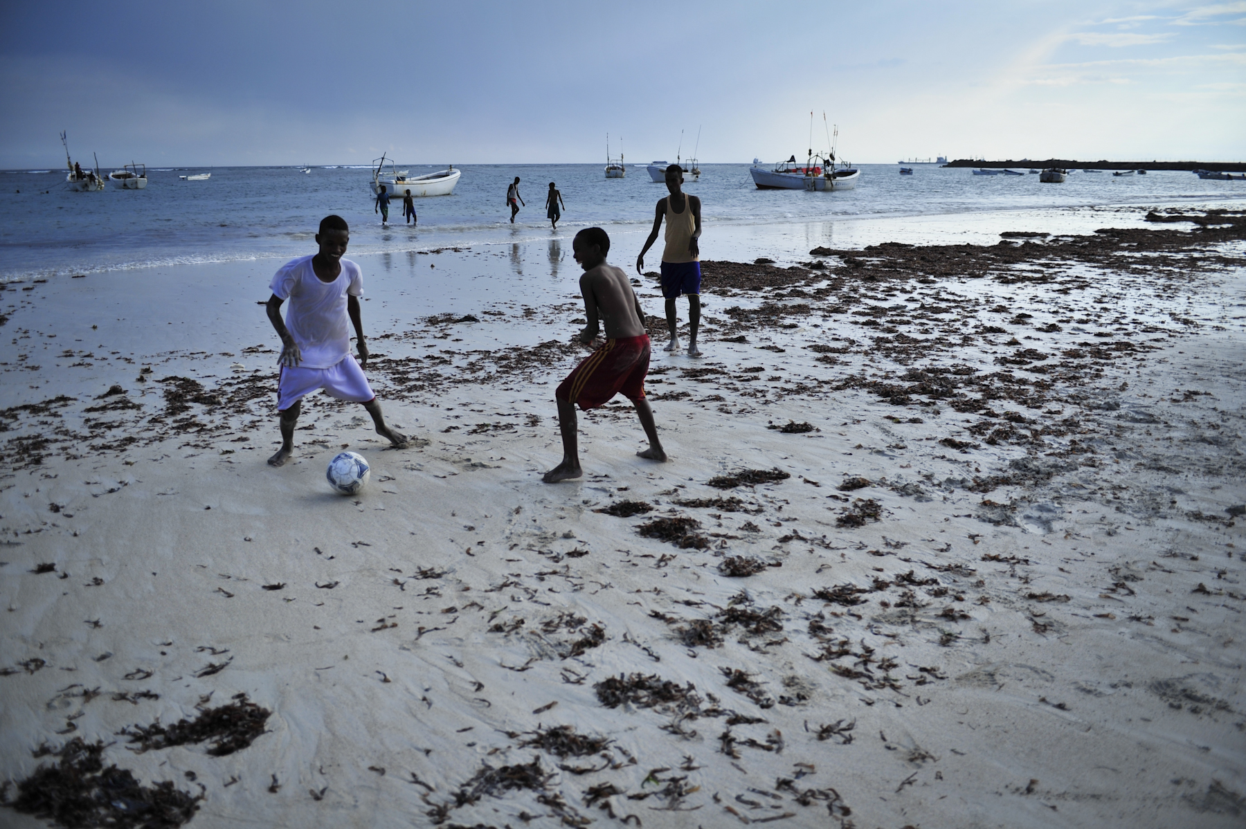 Children play soccer on Lido beach in Mogadishu. After more than two decades of civil war, life in Somalia's capital is finally returning to some semblance of normality. AU-UN IST PHOTO / TOBIN JONES.